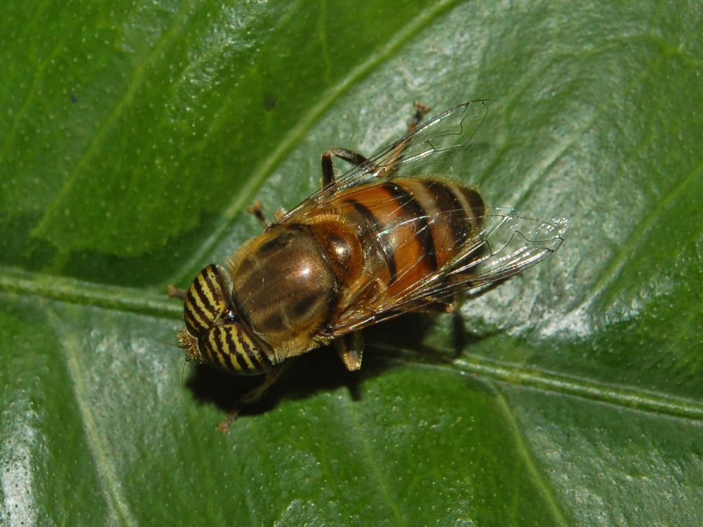 E. taeniops